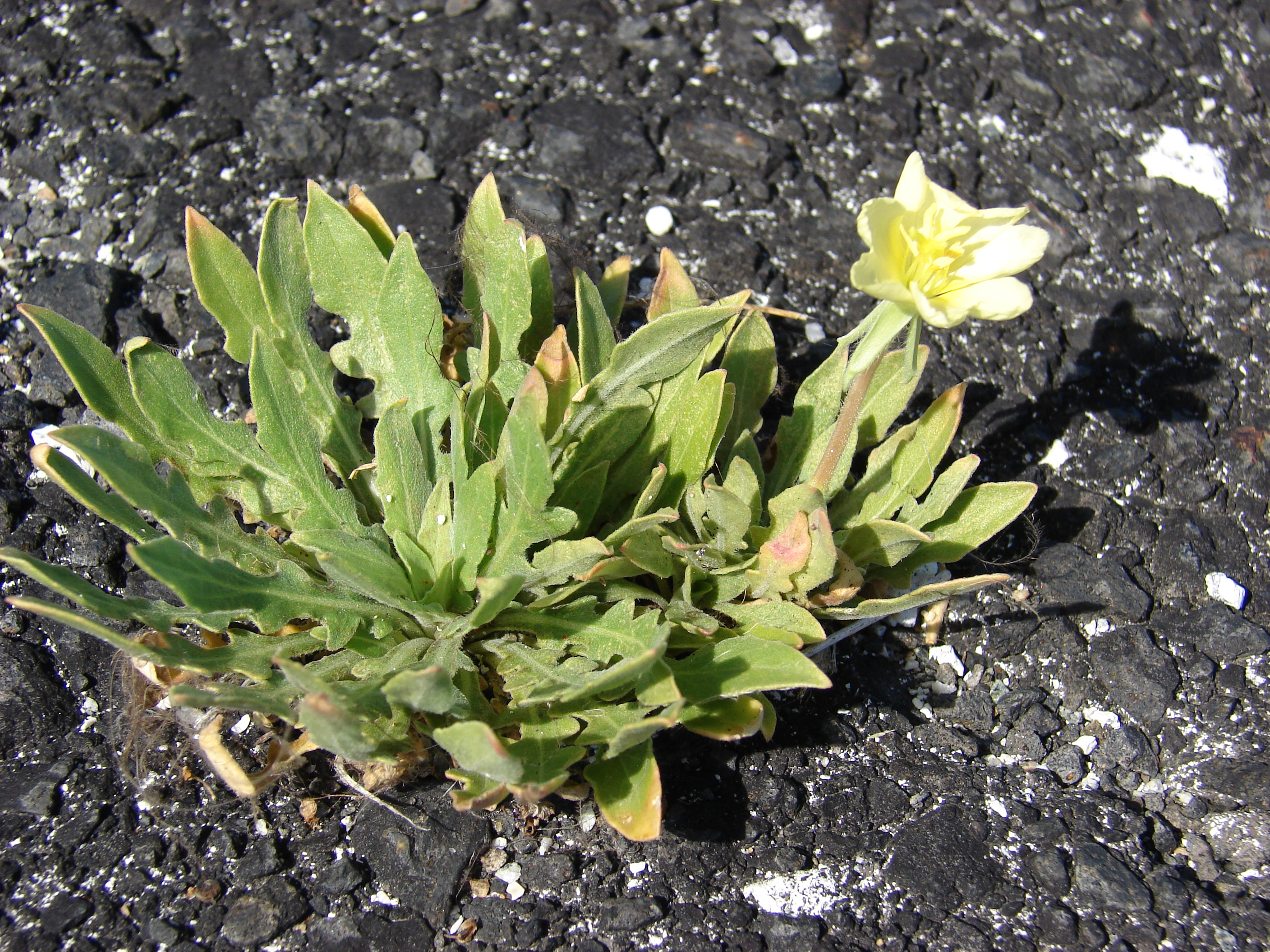 Oenothera laciniata (flowering habit). Location: Midway Atoll, South Beach Sand Island